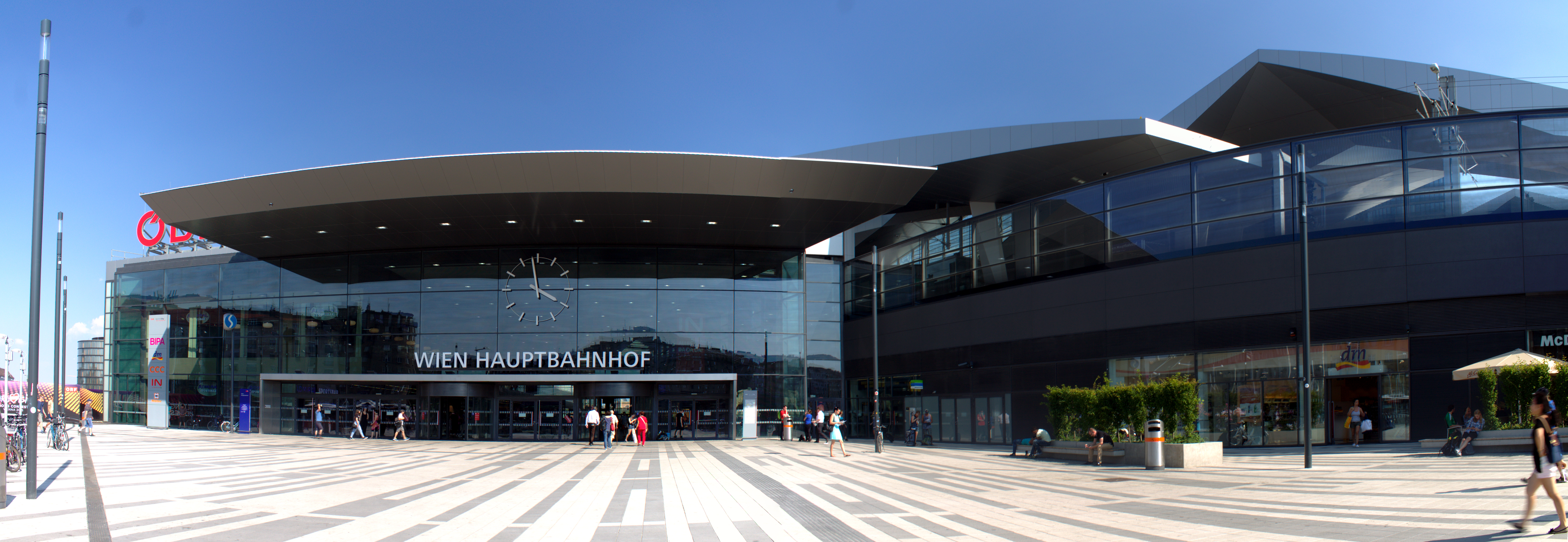 The entrance of Vienna Grand Central Station (Wien Hauptbahnhof) facing the Wiedner Gürtel & Südtiroler Platz